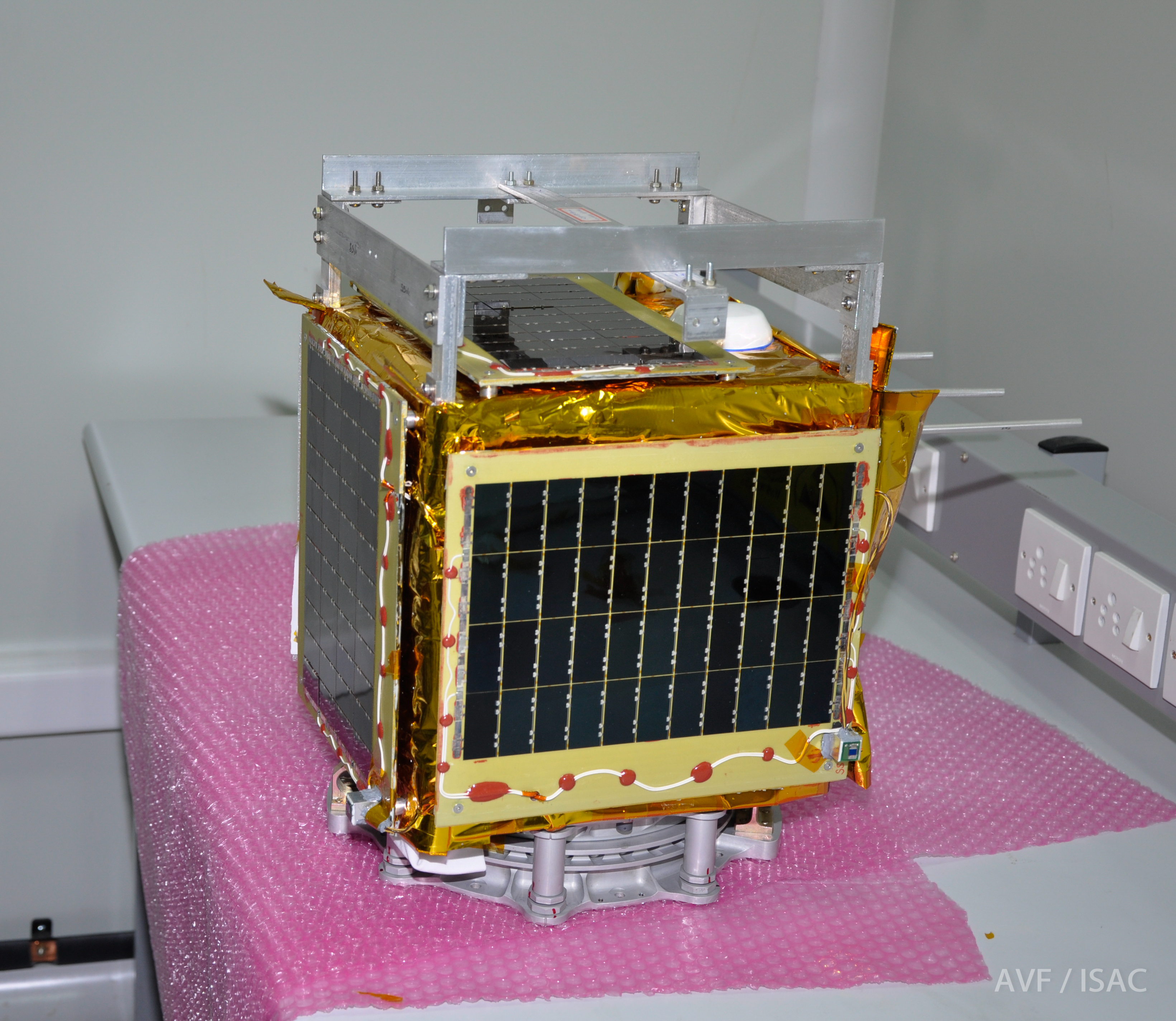 The Final Flight Model of Pratham Satellite at ISAC, Bangalore.